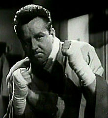 Actor Steve Brodie in a screenshot from the 1950 film "The Admiral Was a Lady"